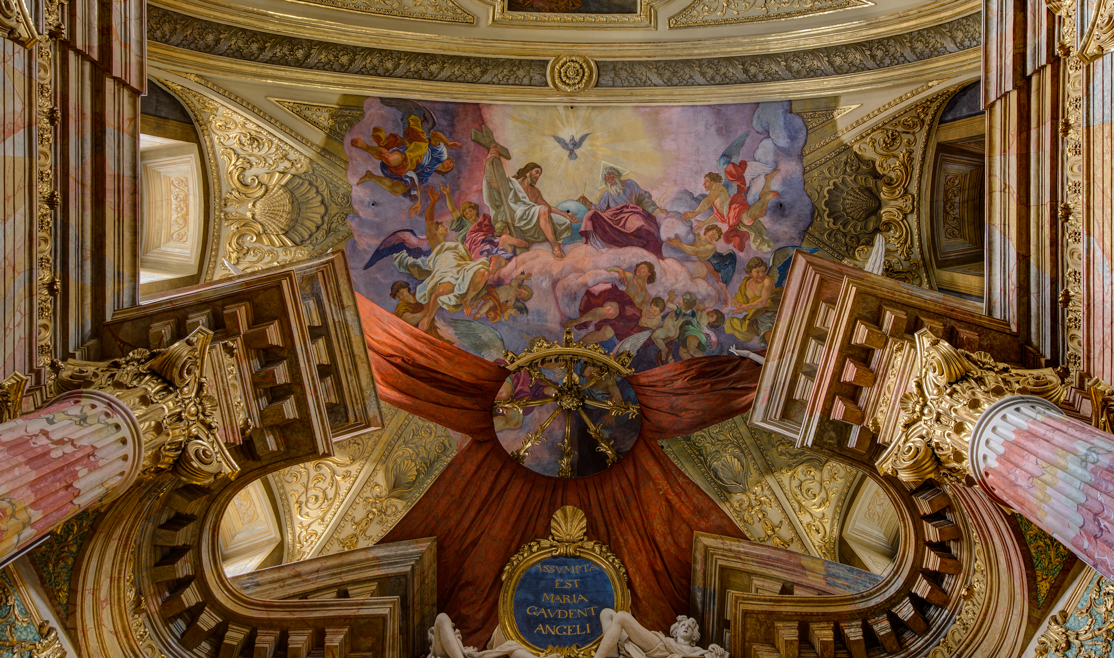 Jesuit Church, Dr.-Ignaz-Seipel-Platz, Vienna, Frescoes by Andrea Pozzo during his time in Vienna (1702-1709).